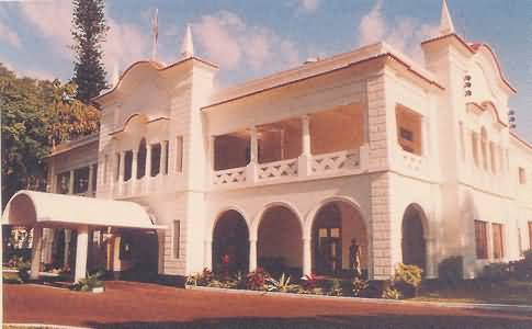 Residence of the Governor General at Ponta Vermelha circa 1939